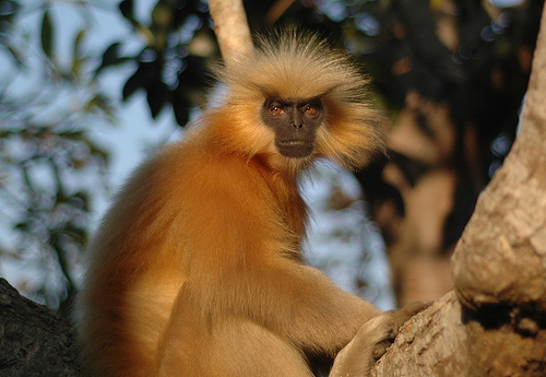 Copied from flickr. Link